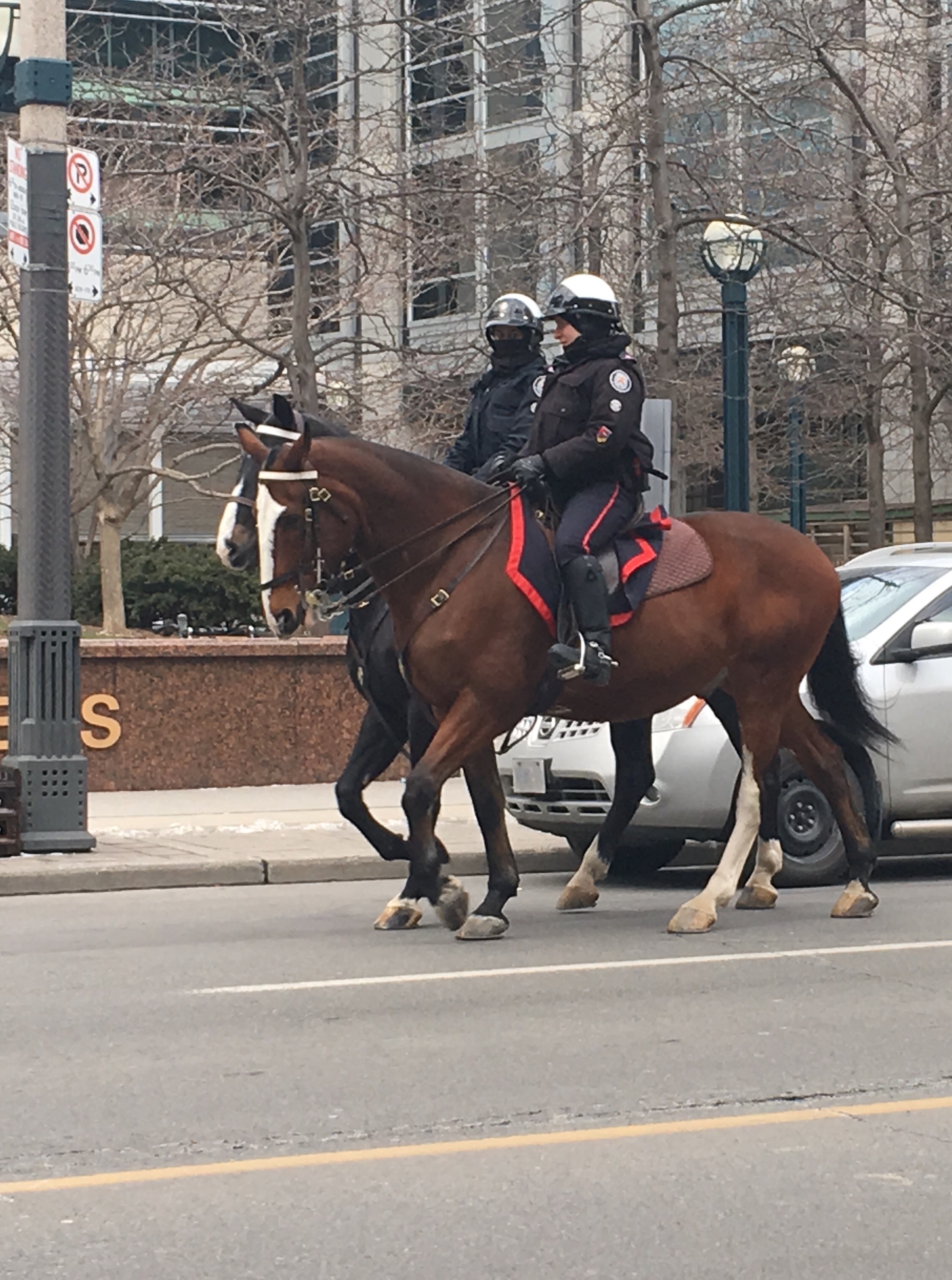 Toronto's Finest